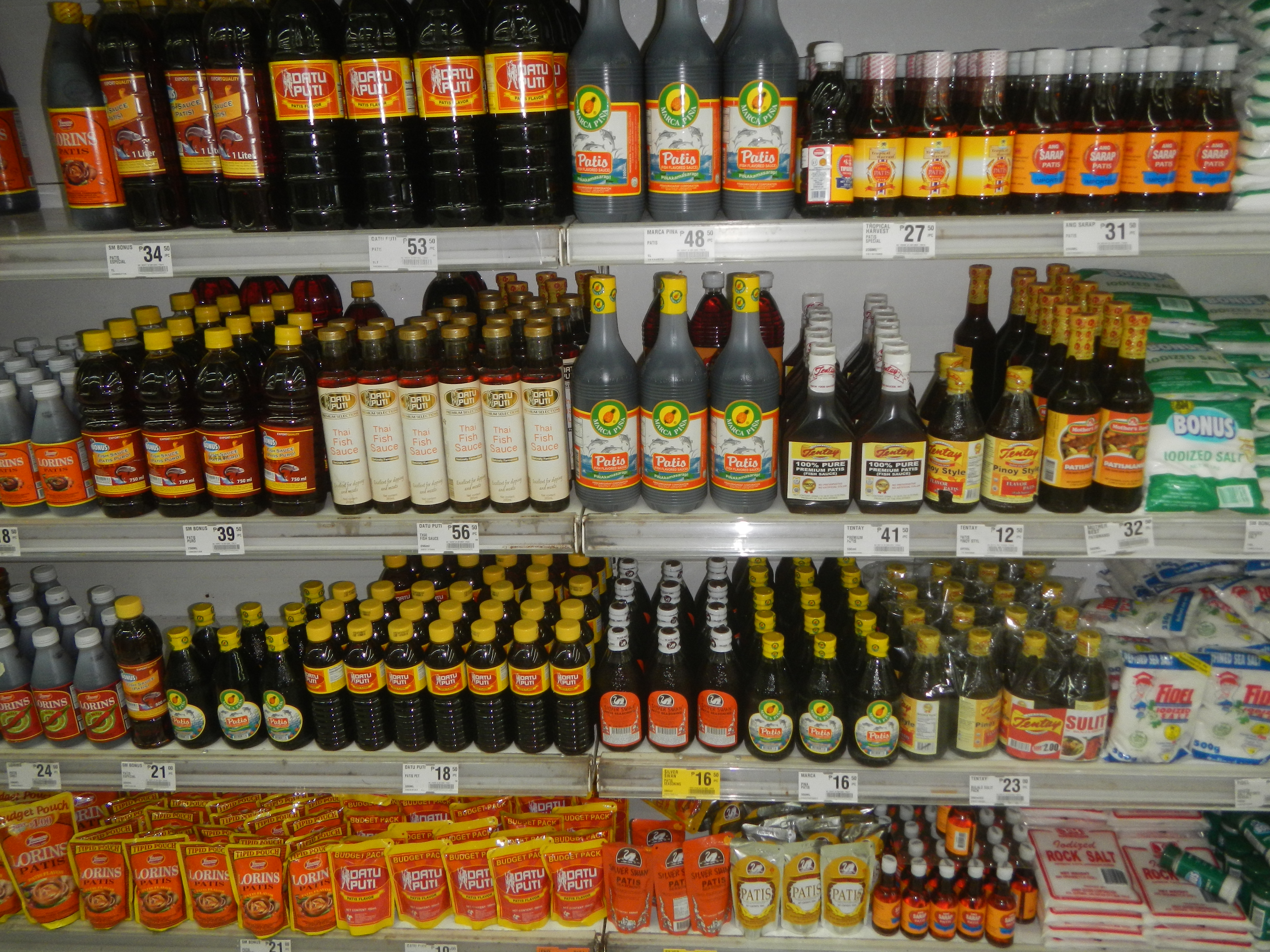 Bagoong Patis (fish sauce) and Soy sauce of the Philippines (Note: Judge Florentino Floro, the owner, to repeat, Donor Florentino Floro of all these photos hereby donate gratuitously, freely and unconditionally all these photos to and for Wikimedia Commons, exclusively, for public use of the public domain, and again without any condition whatsoever).